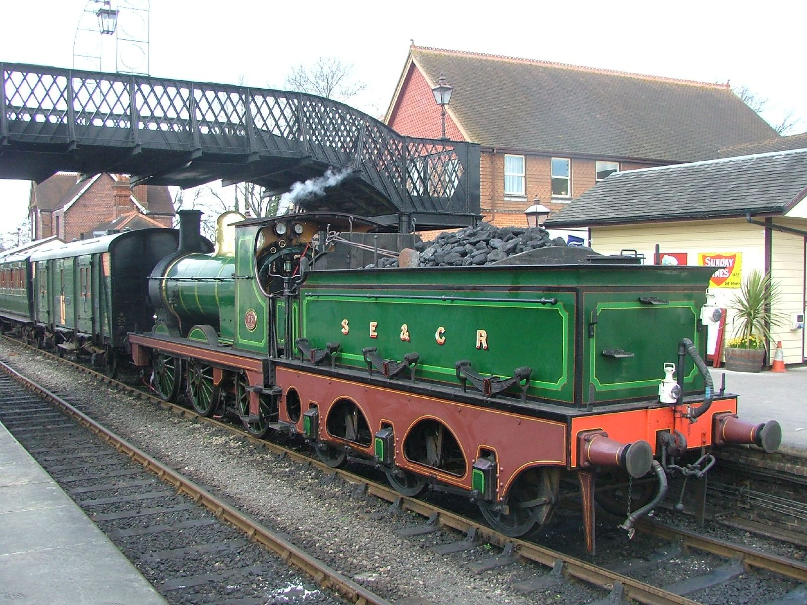 An unfortunate necessity of any end-to-end line with no turning facilities.O2 class no 65 Tender first